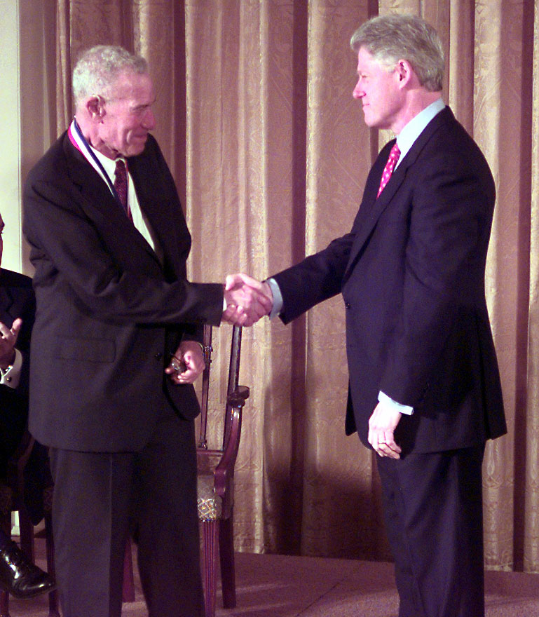 President Clinton is awarding Robert Solow the National Medal of Science